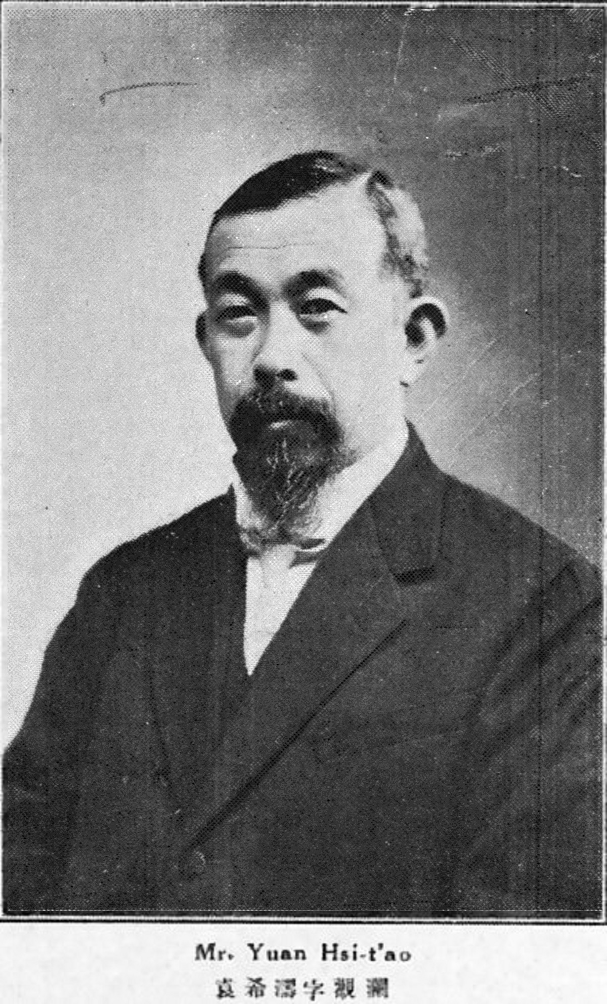 Yuan Xitao, Guanlan (1866 - 1930)